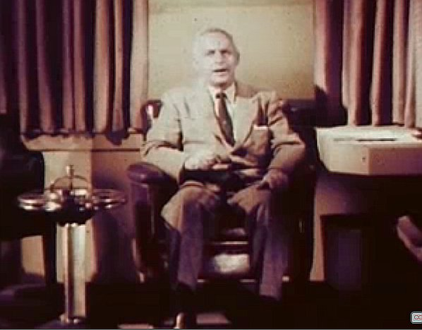 Screen capture from the movie posted on the Internet Archive as shown. Sharpened, cropped and reduced the red level a bit.